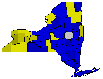 New York 1832 presidential election by county